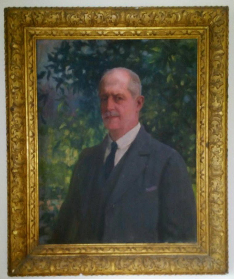 A portrait photo of Sir Basil Scott in black and white. Sir Basil Scott was the Chief of Justice of Bombay (Currently - Mumbai City - India)